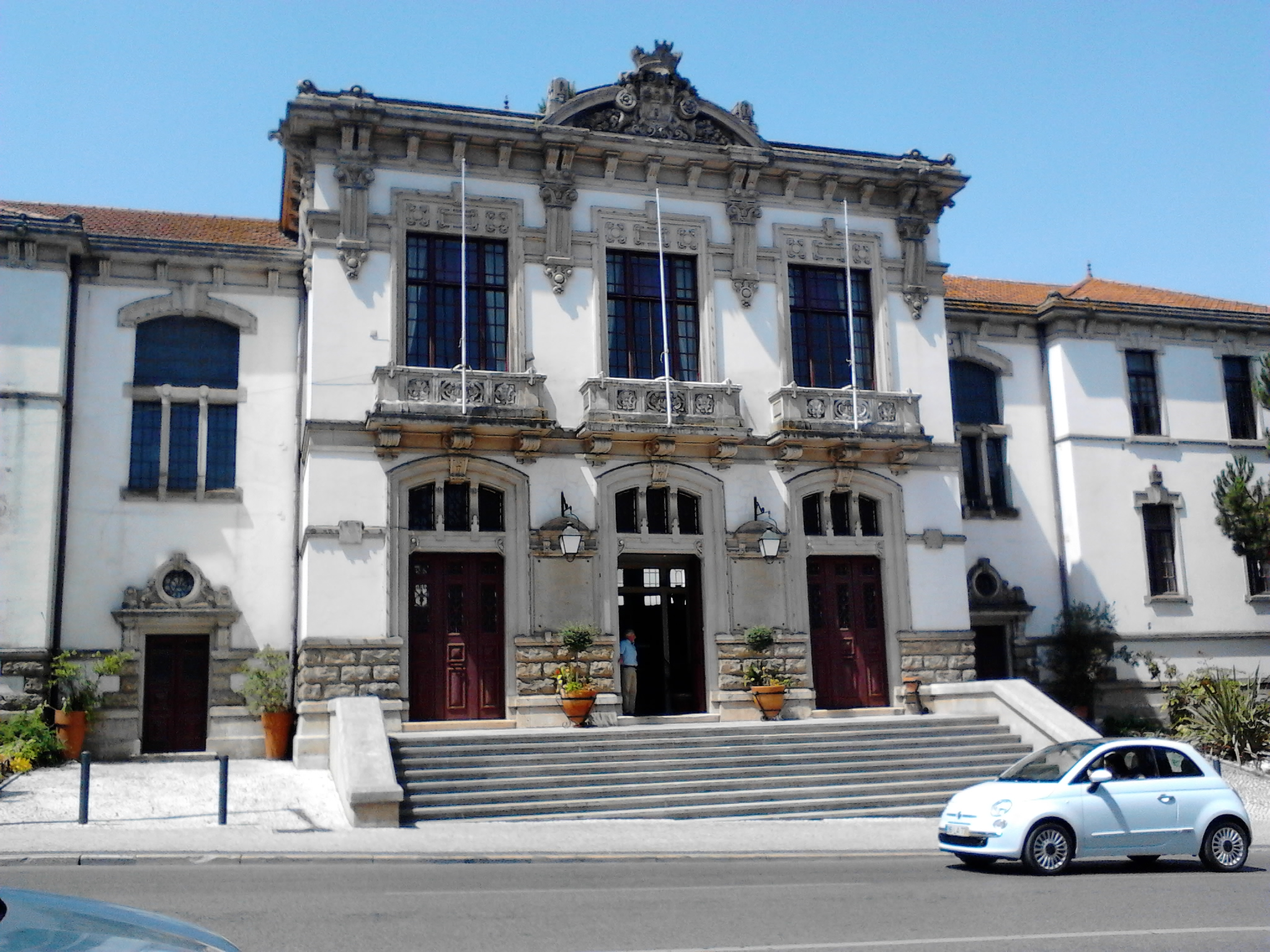 Picture of City Hall of Leiria